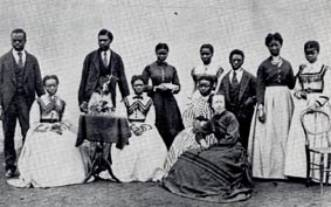 Dr Jane Waterston 1843–1932 and students. Photo must be before 1932